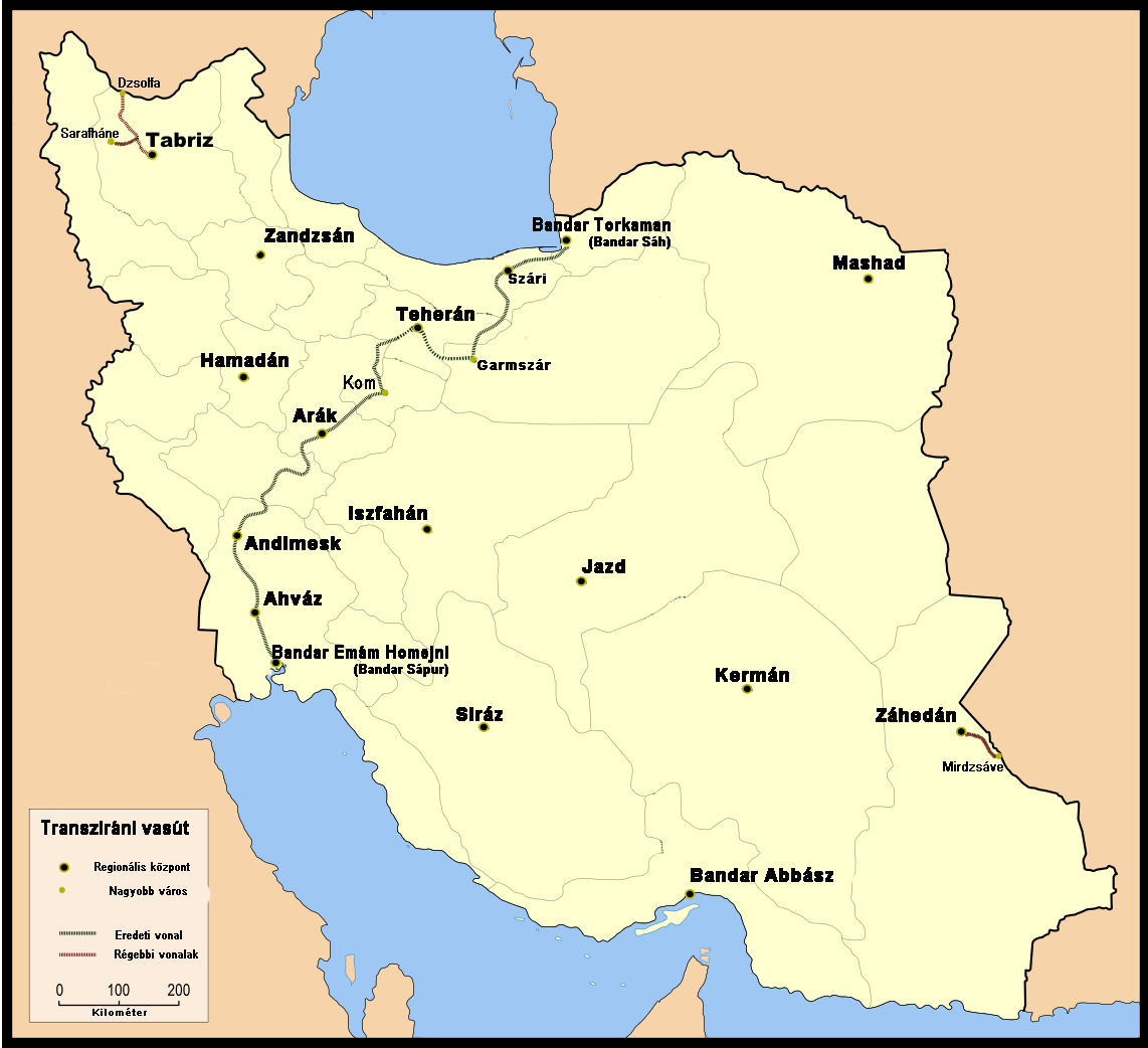 Trans-Iranian Railways as of 1938, with Hungarian placenames